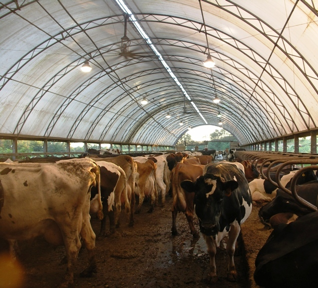 Dairy cattle area at Synergy Farm, a family farm in central New York state, USA